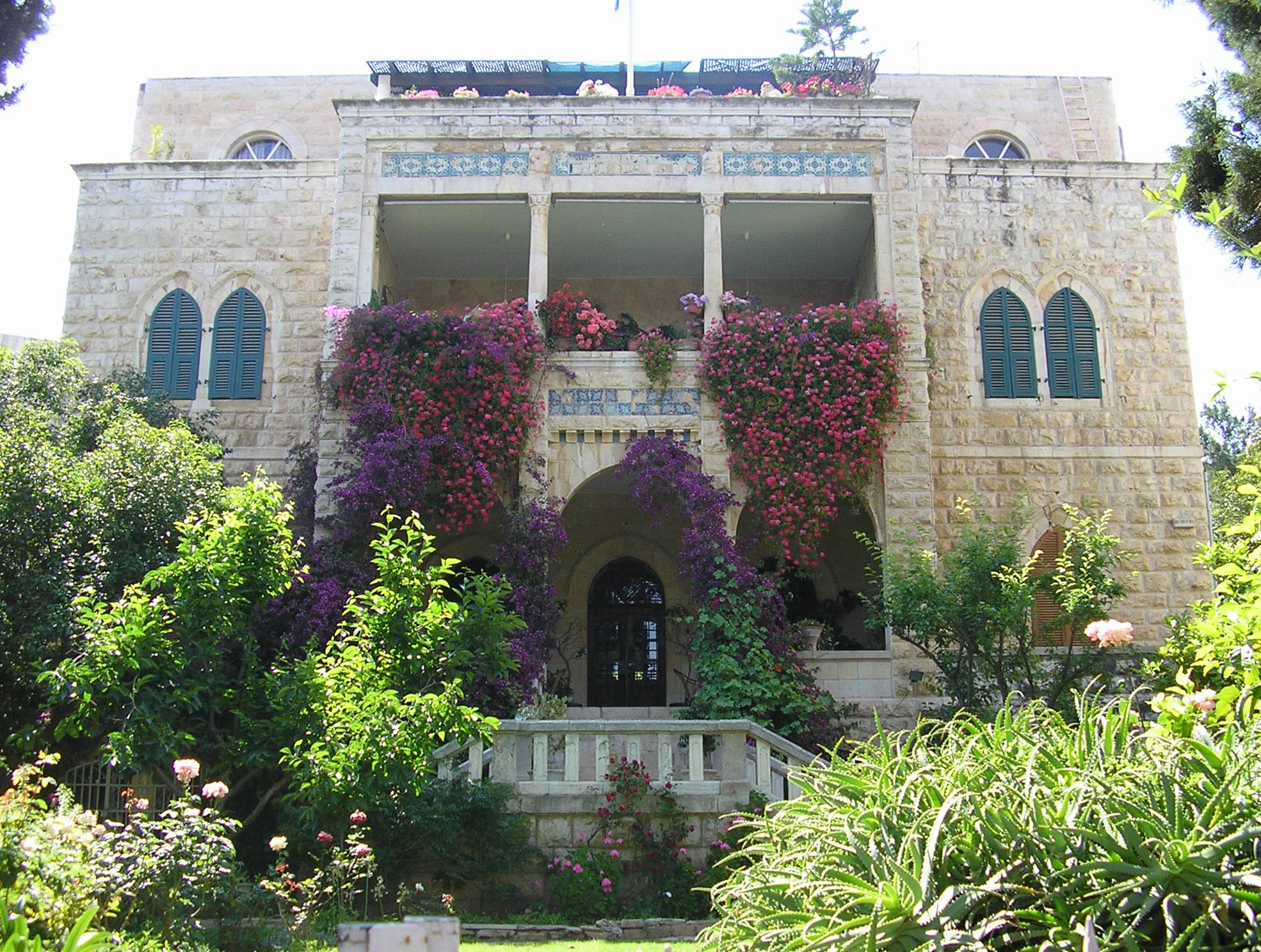 Jerusalem - Talbia - Villa Harun ar-Rashid